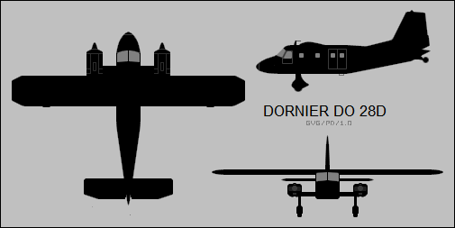 3-view silhouettes of Dornier Do 28D Skyservant